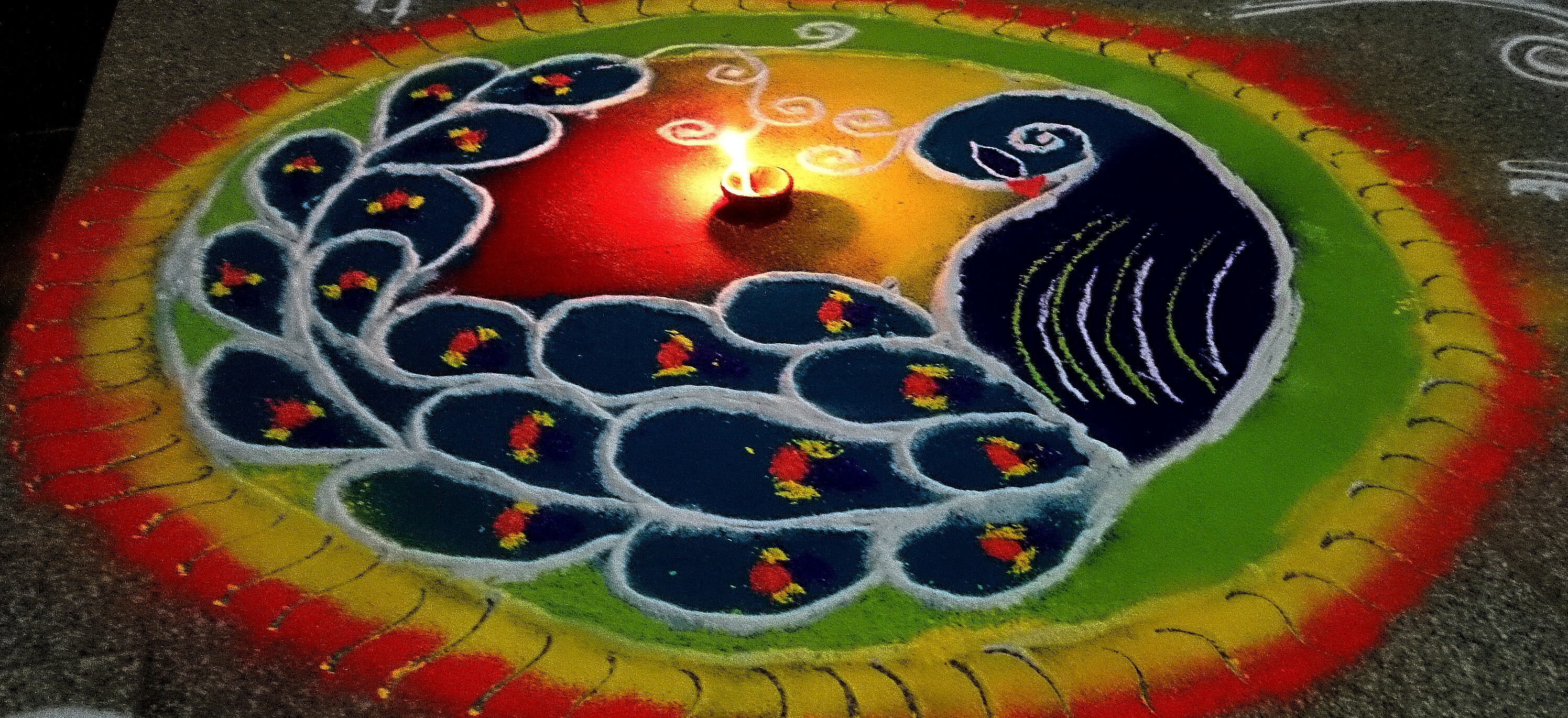 The art work during Vijaya Dashami Vijayadashami also known as Dasara, Dashahara, Dussehra, Dashain (in Nepal), Navratri is one of the most important Hindu festivals. India Festivals October 2013